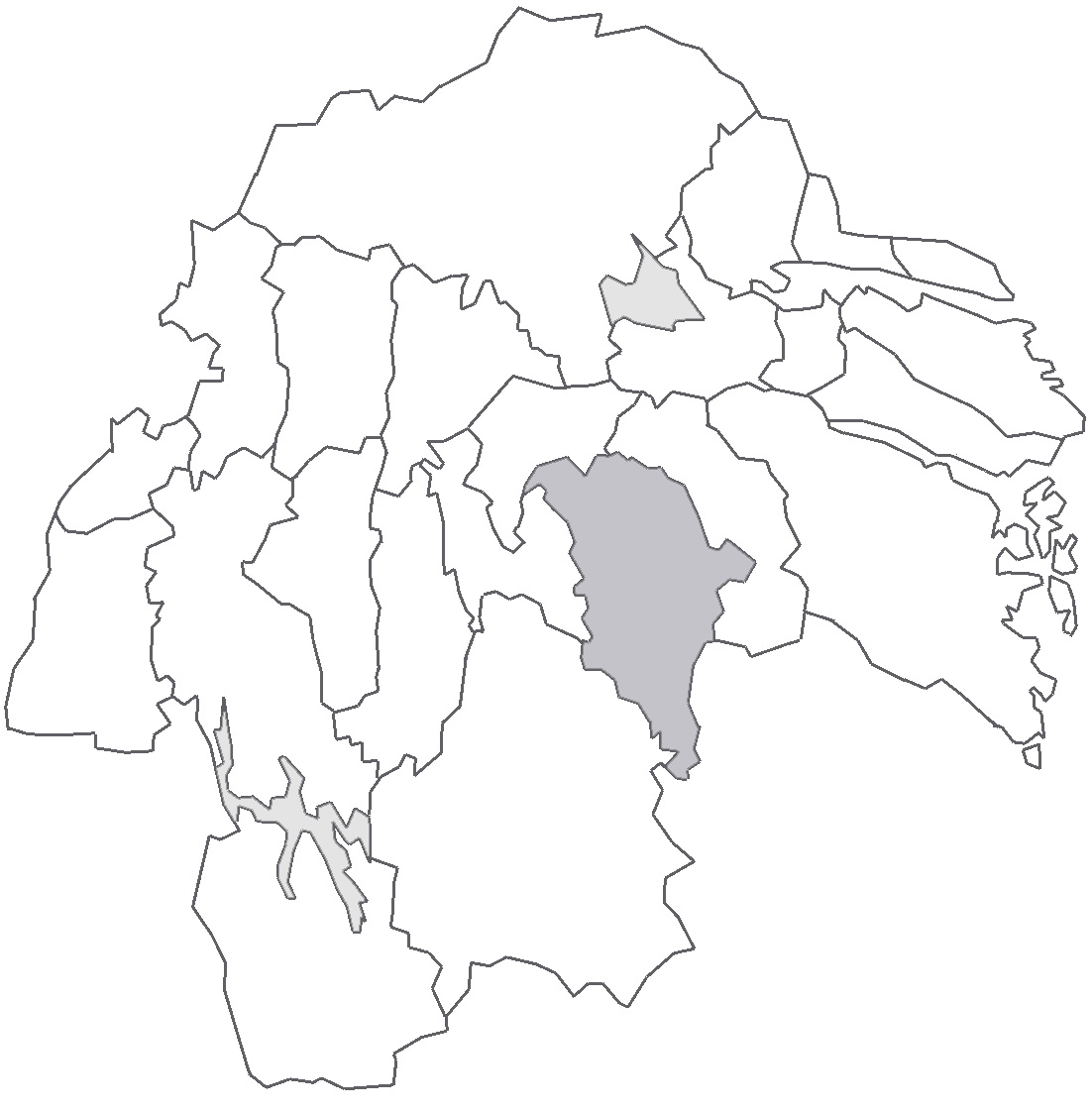 Map describing the location of Bankekind Hundred in Östergötland County, Sweden.